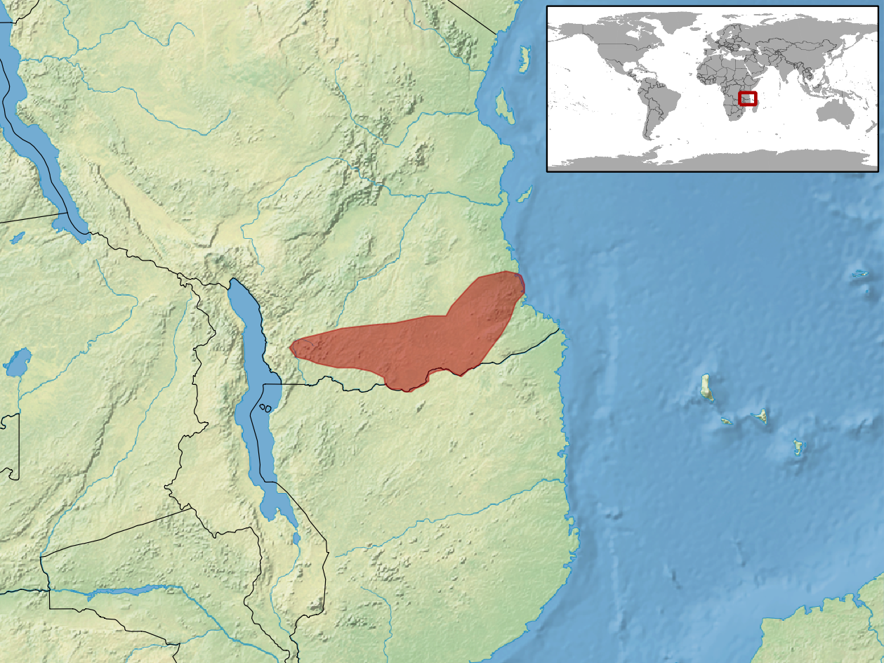 geographic distribution of Loveridgea ionidesii (Native: Tanzania, United Republic of)